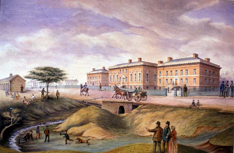 The parliament buildings of Upper Canada, designed by Thomas Rogers and constructed between 1829 and 1832, stood at Front and Simcoe streets. York/Toronto, Canada.